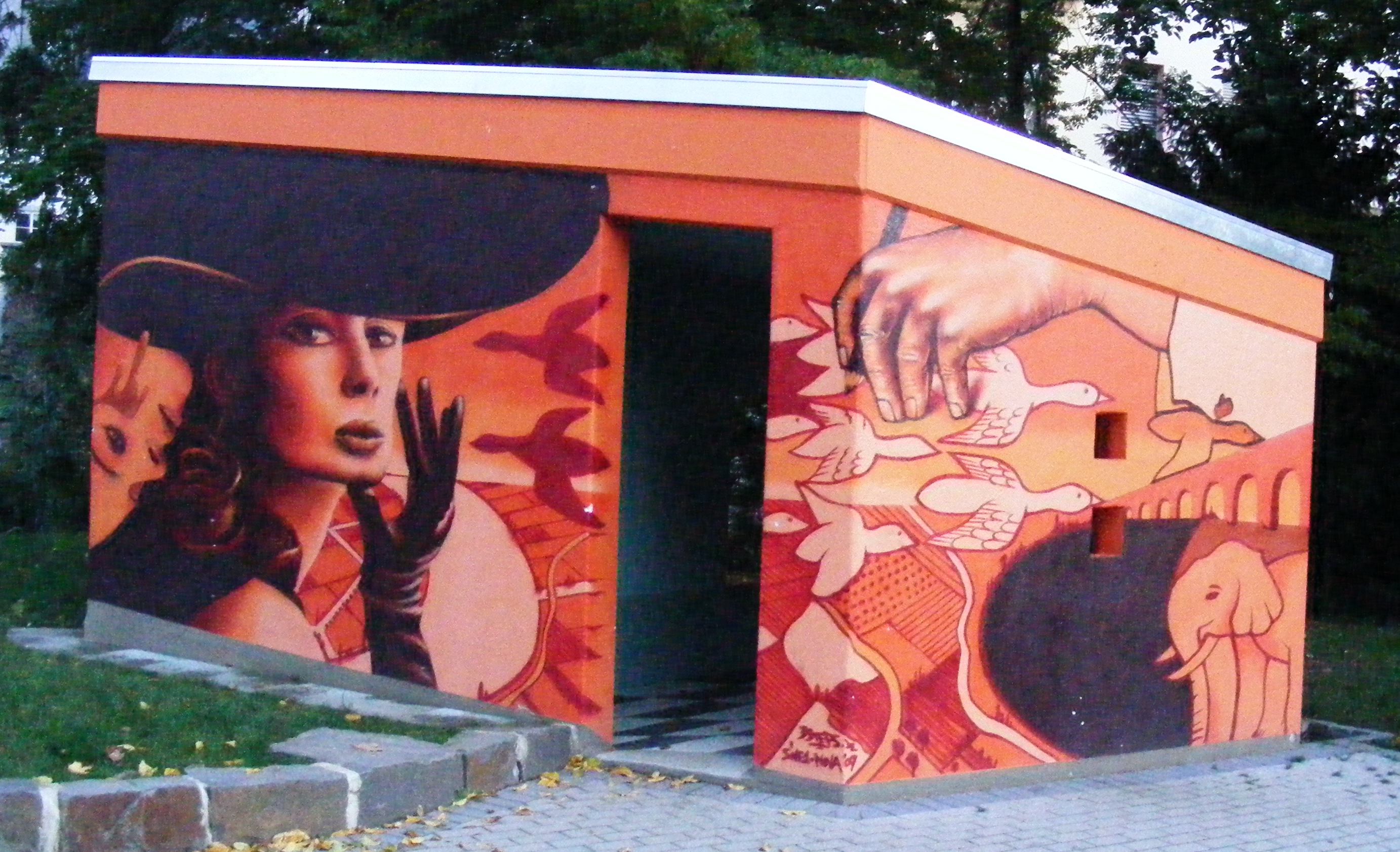 Opticparcours Wetzlar: Amesraum